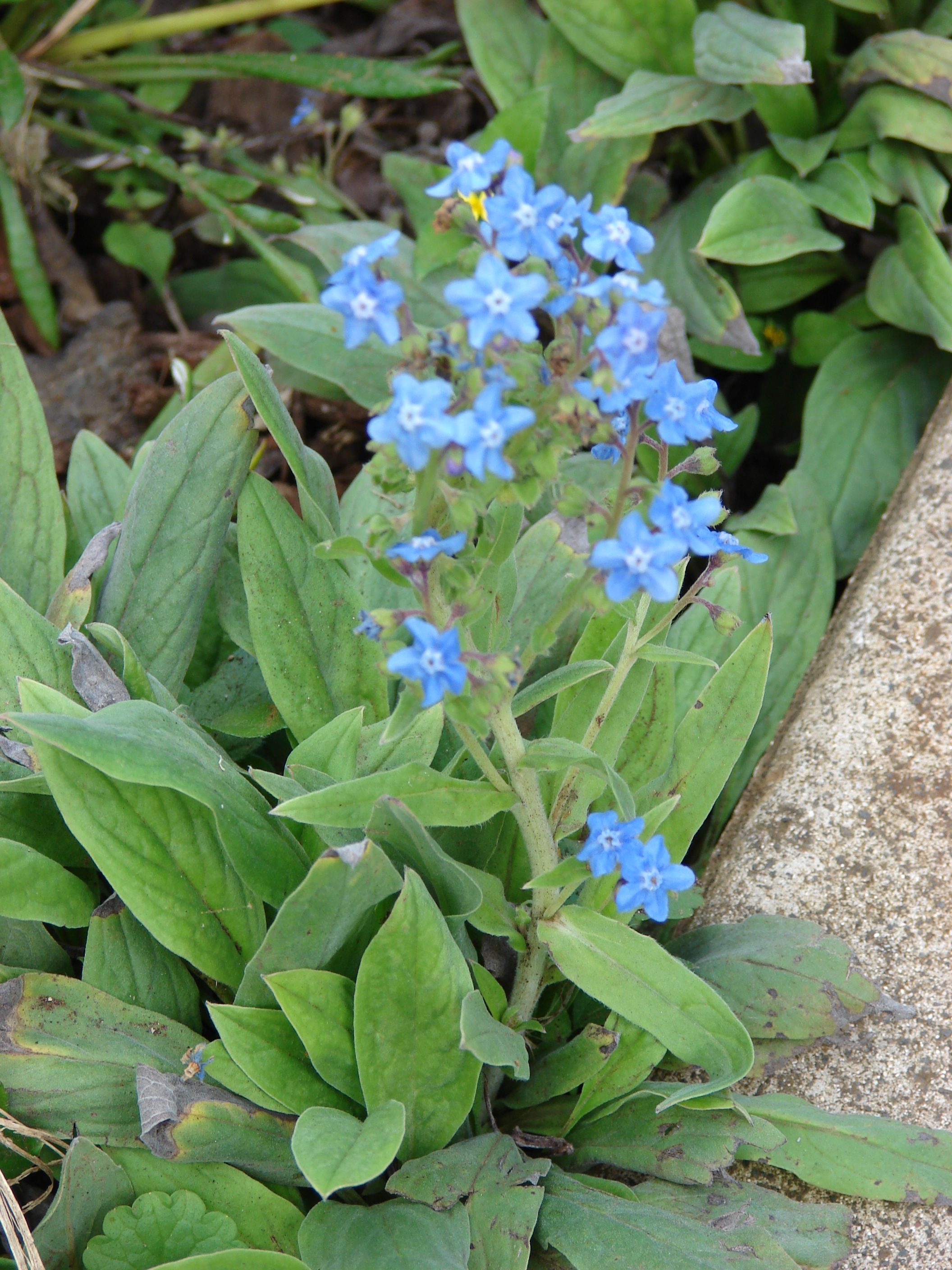 Cynoglossum amabile (flowering habit). Location: Maui, Ulupalakua Ranch Store